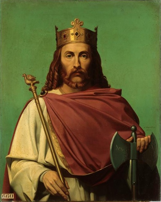 Portraits of Kings of France is a serie of portraits commissioned between 1837 and 1838 by Louis Philippe I and painted by various artists for the Musée historique de Versailles.